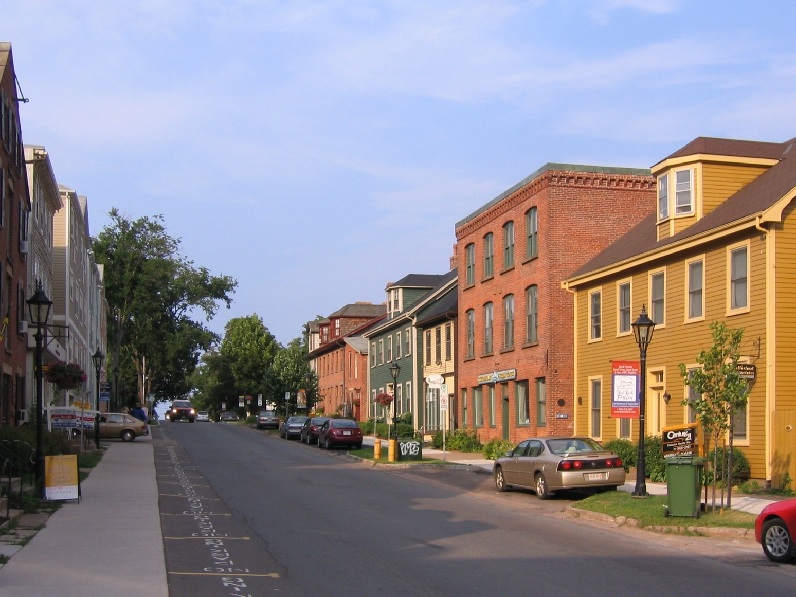 Charlottetown, Prince Edward Island